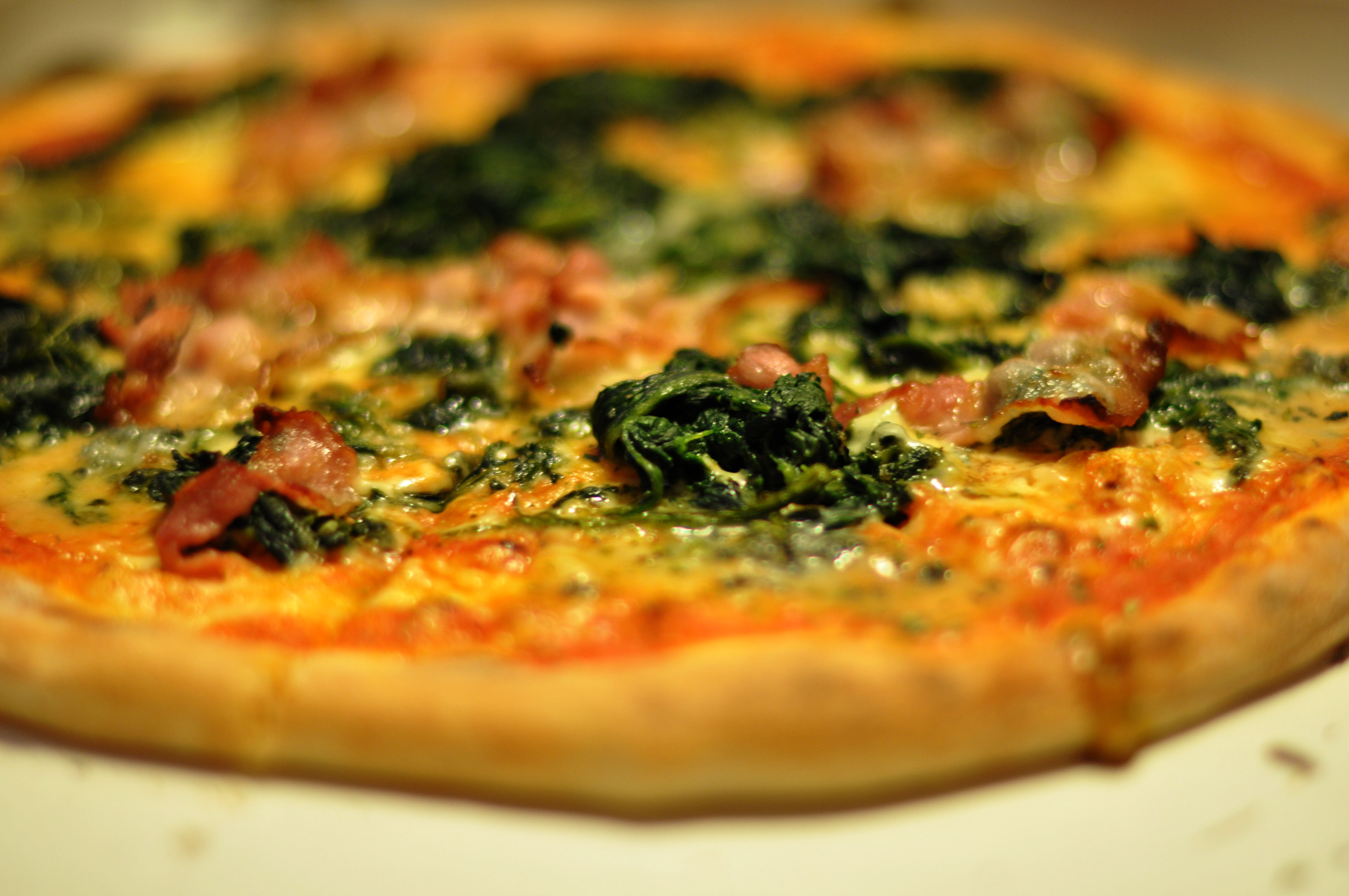 Pizza with gorgonzola, spinach and bacon.